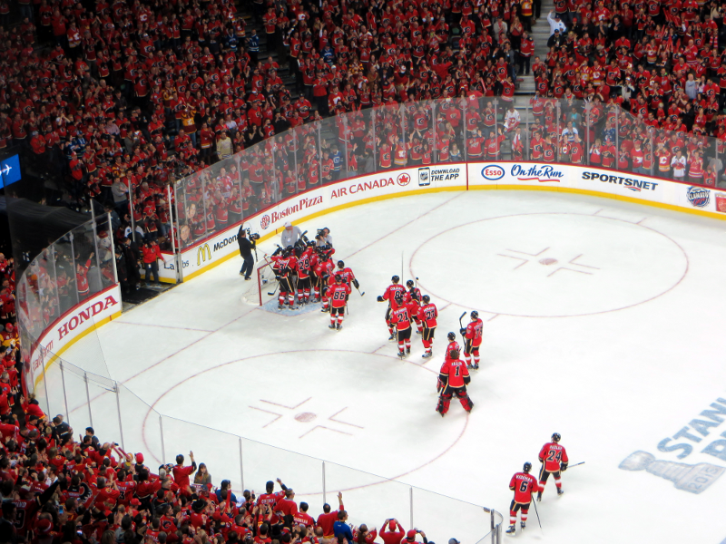 The Calgary Flames celebrate after eliminating the Vancouver Canucks in the first round of the 2015 Stanley Cup Playoffs. April 25, at Calgary.